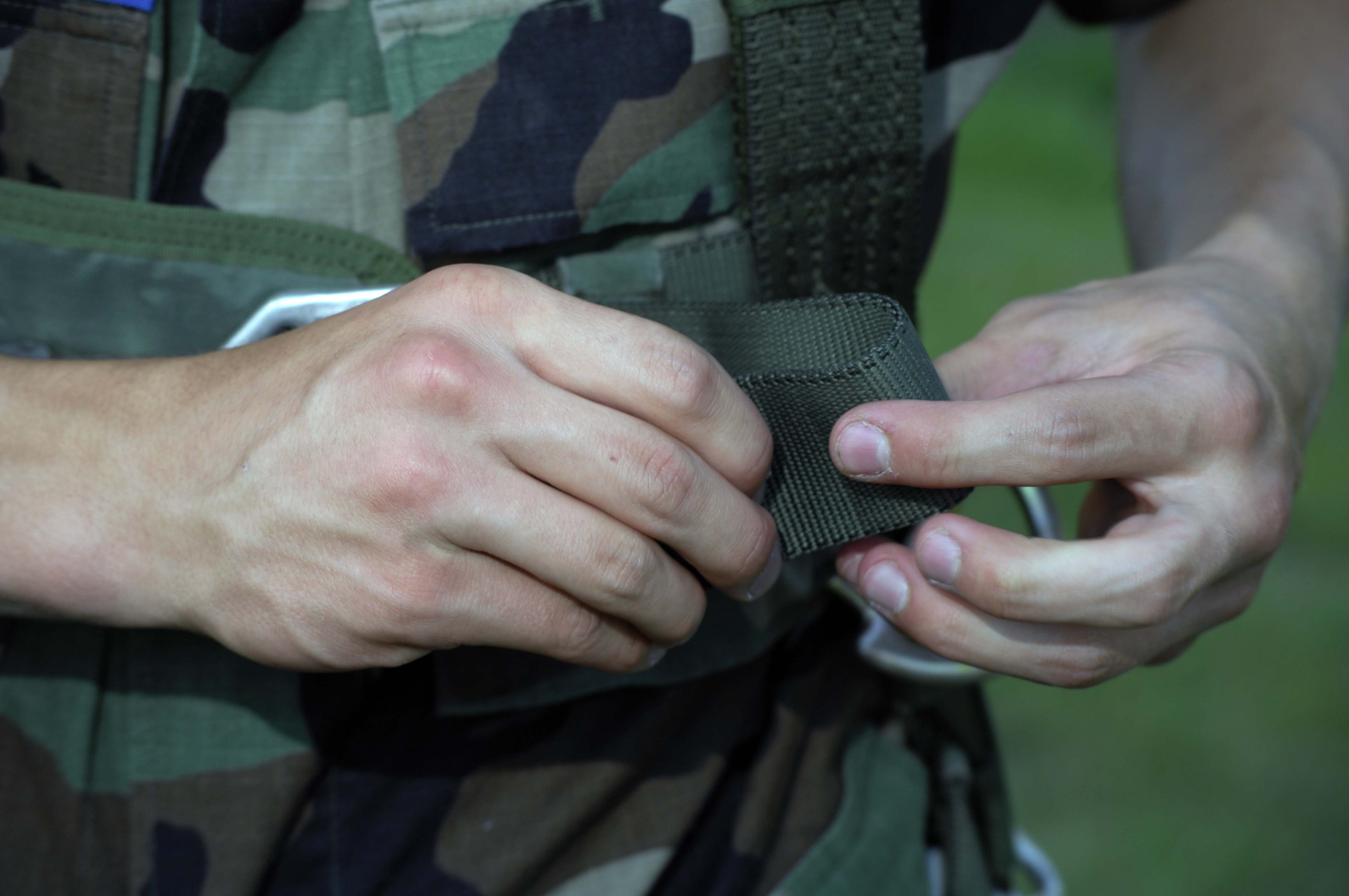 Cadet Senior Airman Jeremy Shaver folds the free running end on the harness’ chest strap June 29 during an airborne class for 15 cadets from the Civil Air Patrol Harrisburg International Composite Squadron 306 on the 193rd Special Operations Wing Pennsylvania Air National Guard Base.